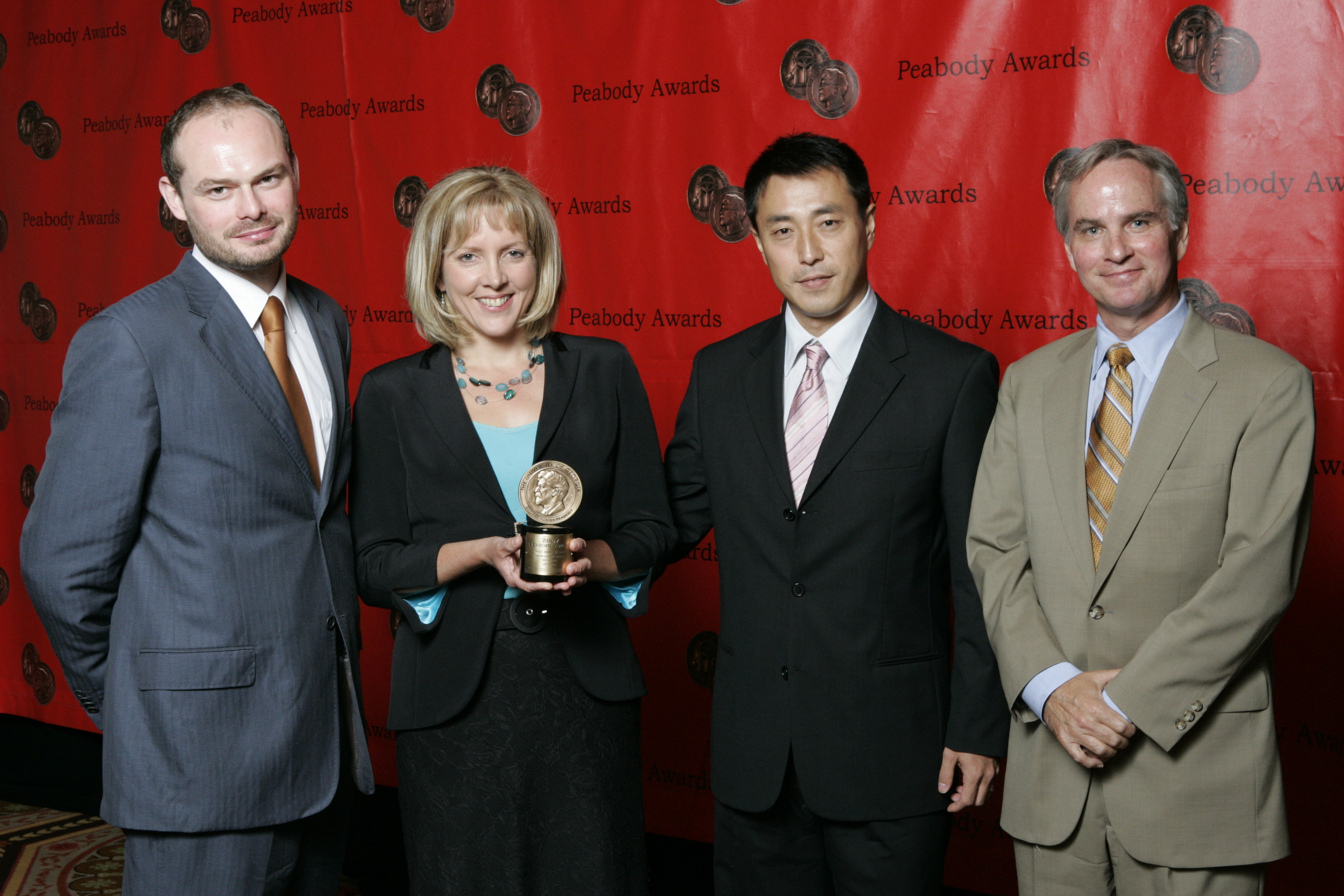 Rome Hartman, Carrie Gracie, Warwick Harrington and Al Go 67th Annual Peabody Awards Luncheon Waldorf=Astoria Hotel New York, NY USA June 16, 2008